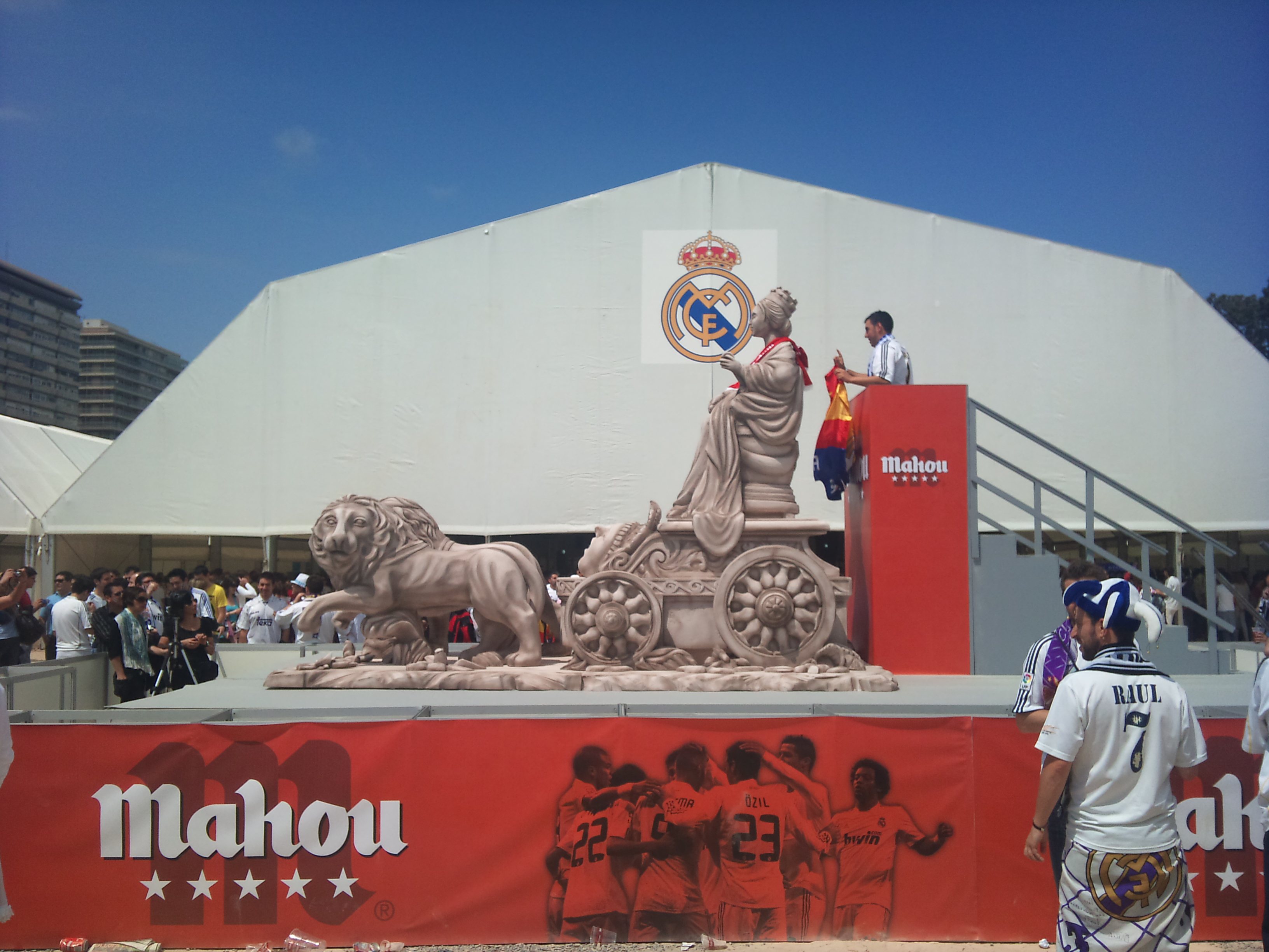 Real Madrid's Fan Zone in València. Copy of the Cybele's fountain.